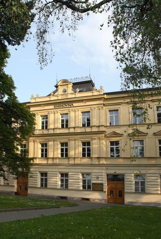 Main building of the František Bartoš Regional Library in Zlín, Czech Republic